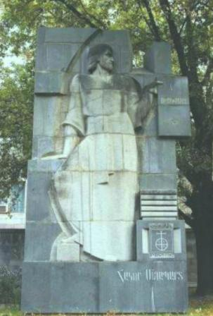 Sculpture Hakob Meghapart in Yerevan. Sculp. Khachatur Iskandaryan